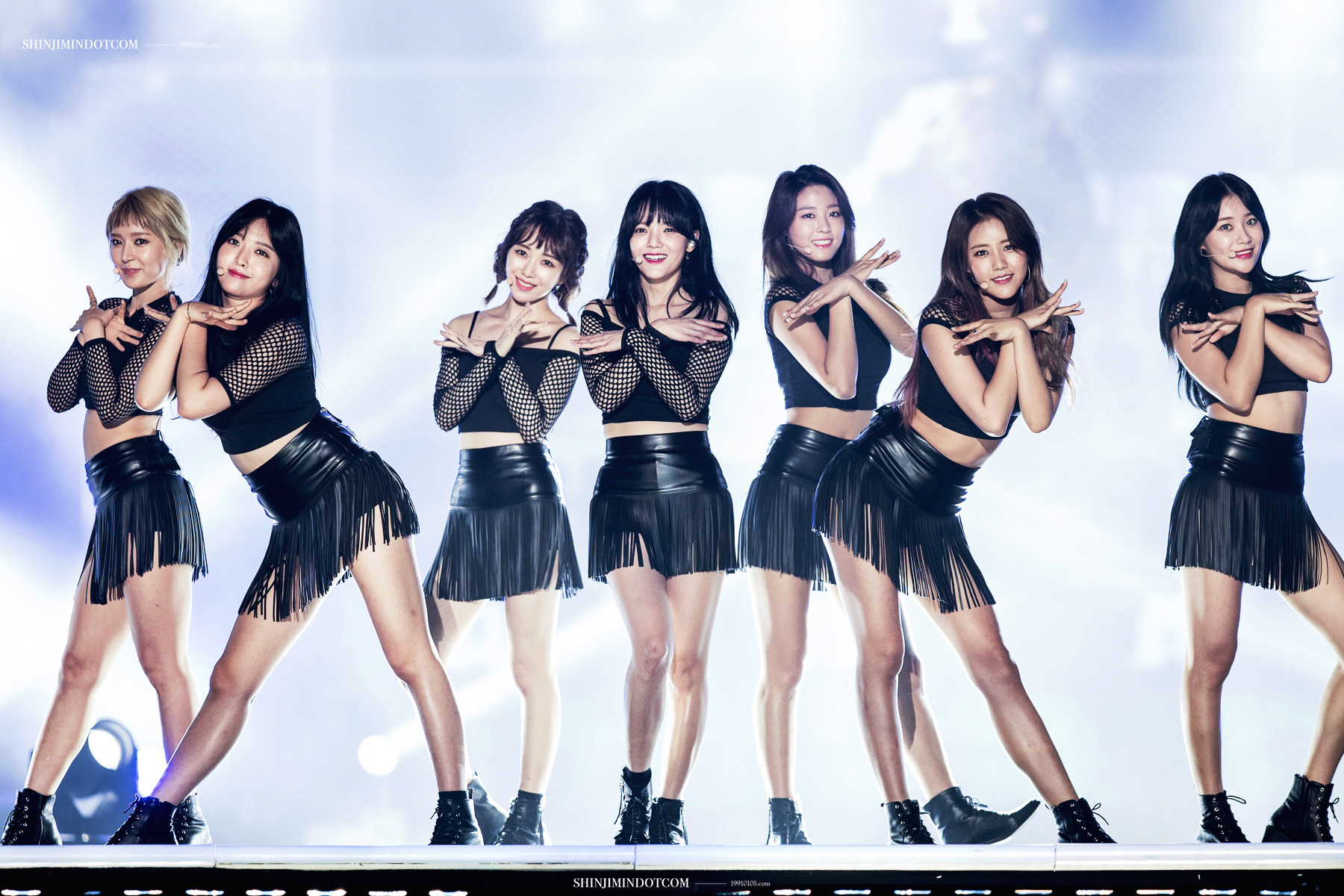 AOA 2016 in Incheon.